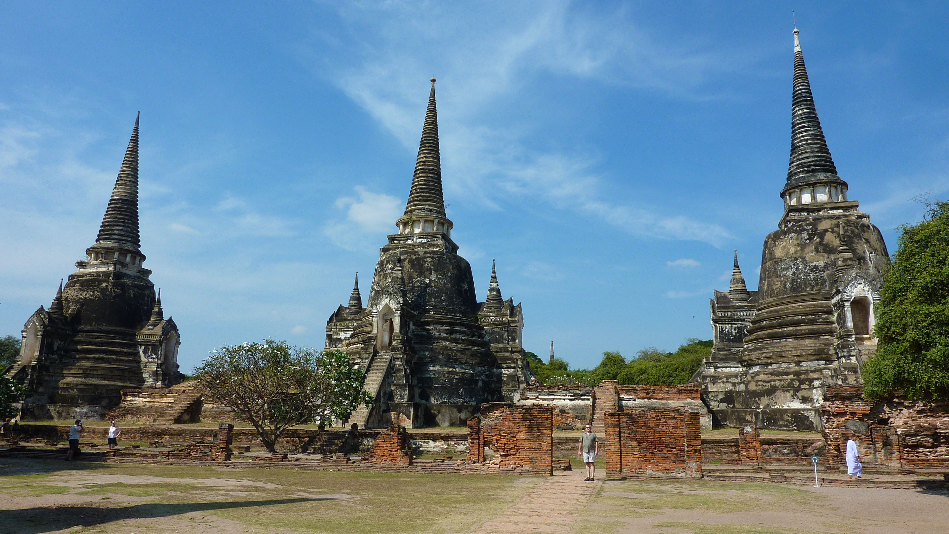 Chedis at the Ayutthaya Historical Park